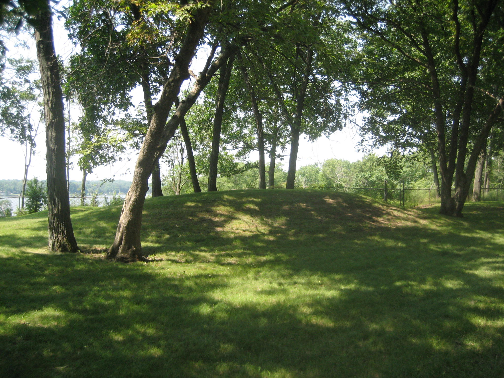 Sinnissippi Site, Sinnissippi Park, Sterling, Illinois. U.S. National Register of Historic Places. The site contains several Hopewellian Indian Mounds built between 500 B.C.E. and 500 C.E.